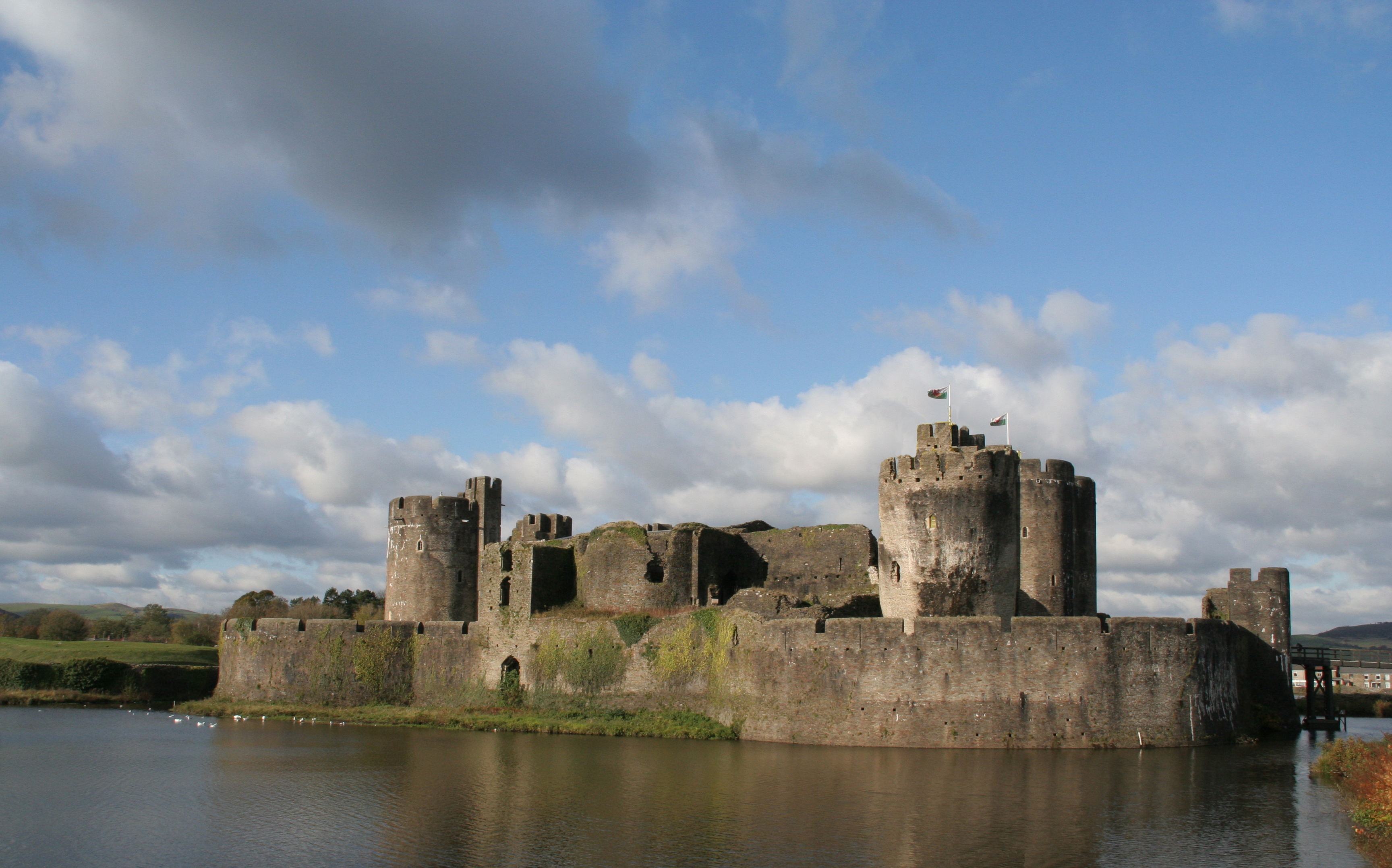 Caerphilly Castle